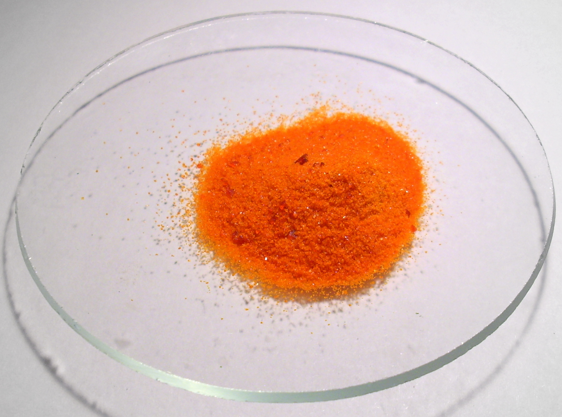 Potassium ferricyanide K3[Fe(CN)6]